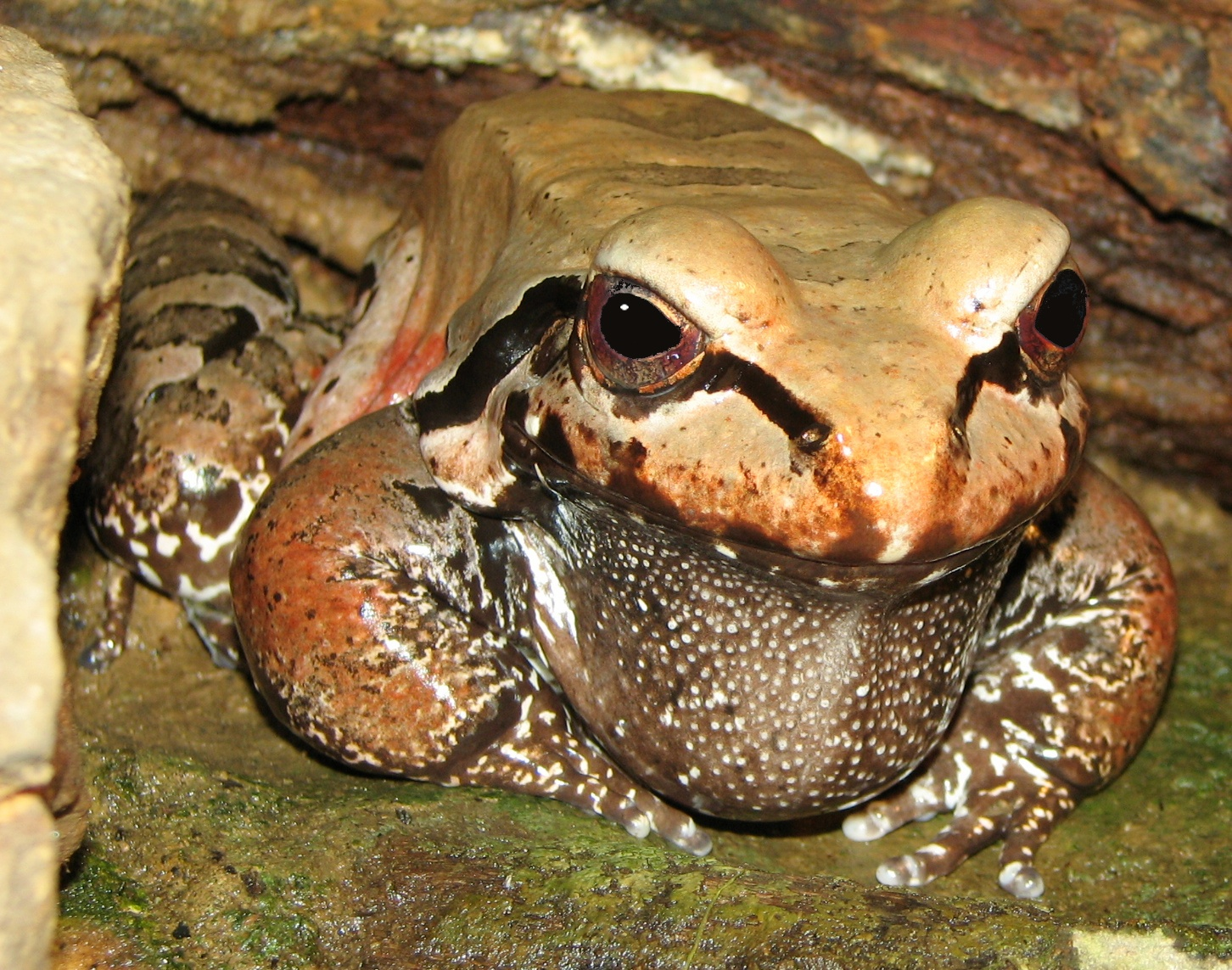 Smokey Jungle Frog - Leptodactylus pentadactylus